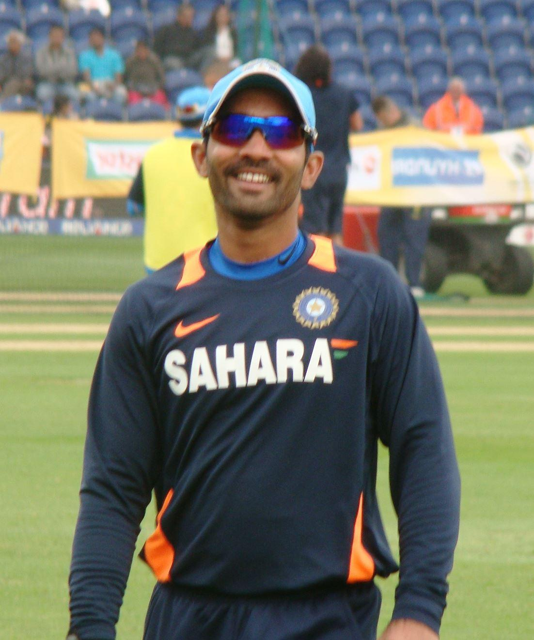 Indian cricketer Dinesh Karthik